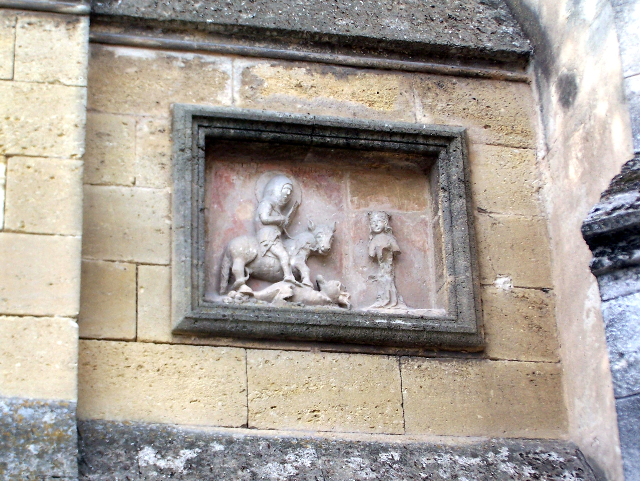 Sculpture on Saint George church of Isle-Saint-Georges (Gironde, France)